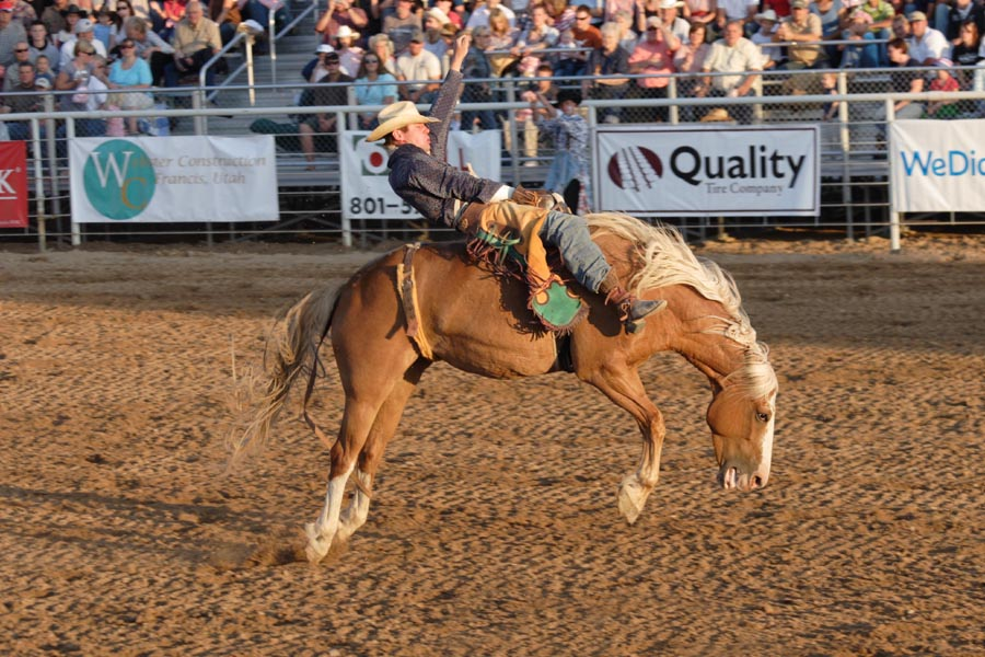 Taken at the Oakley, Utah Rodeo on July 3, 2008